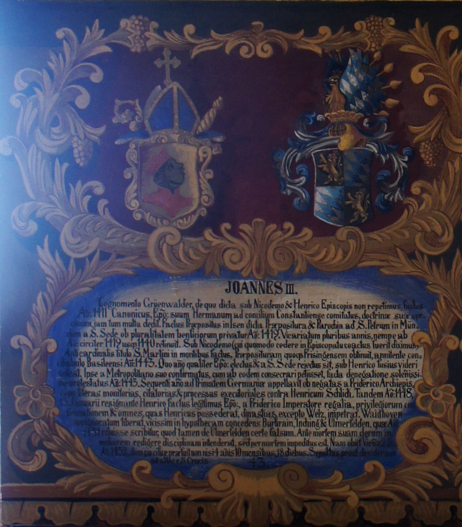 Wappentafel von Johannes III. Grünwalder, Fürstbischof von Freising, im Fürstengang zwischen Fürstbischöflicher Residenz und Freisinger Dom. Links das geistliche, rechts das persönliche Wappen, darunter ein lateinischer Text mit kurzer Biographie.